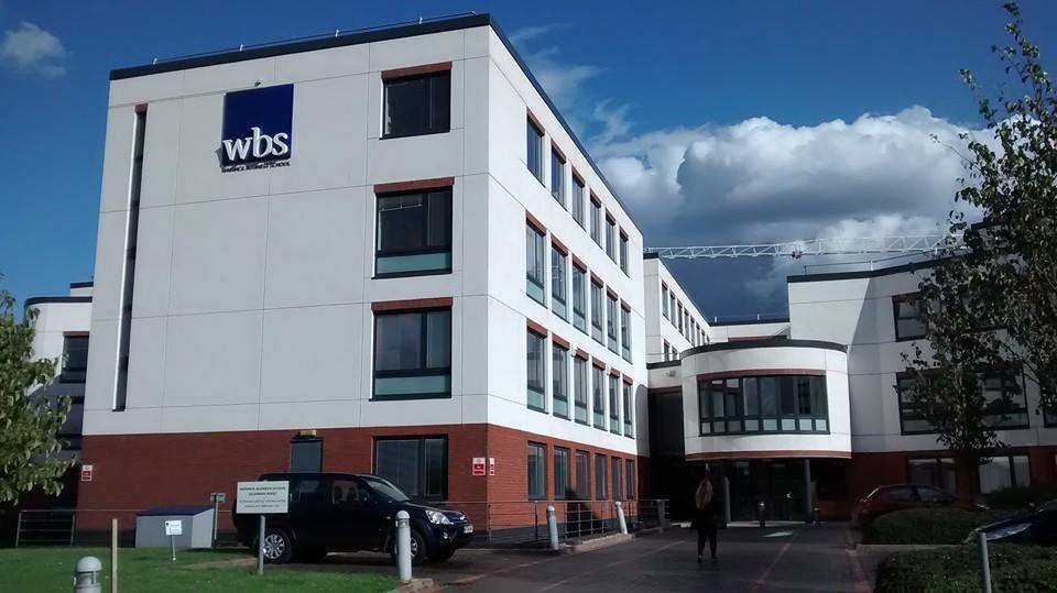 The main building of Warwick Business School.